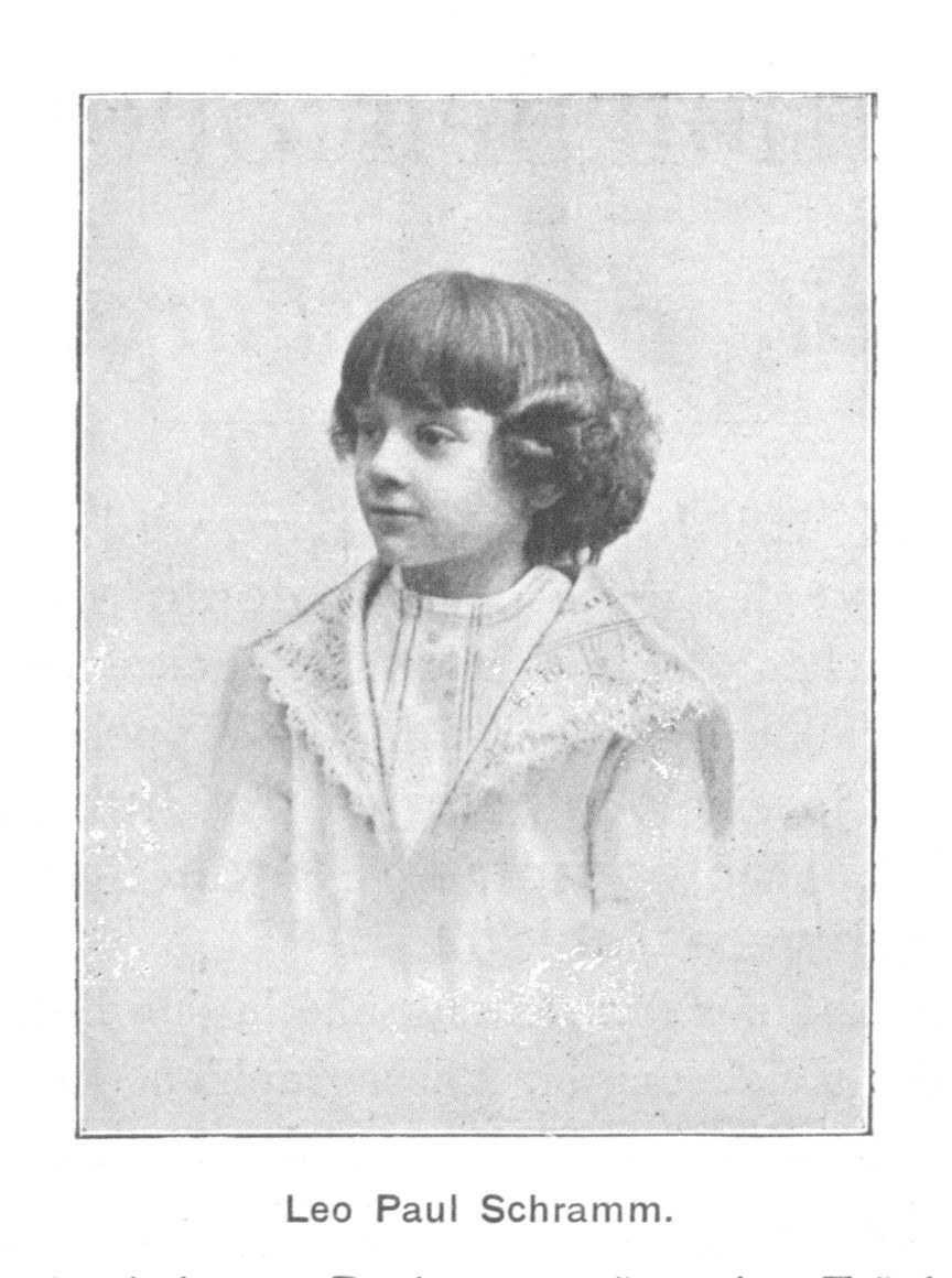 Portrait of Leo Paul Schramm (1892-1953), Austrian, later Australian pianist and composer